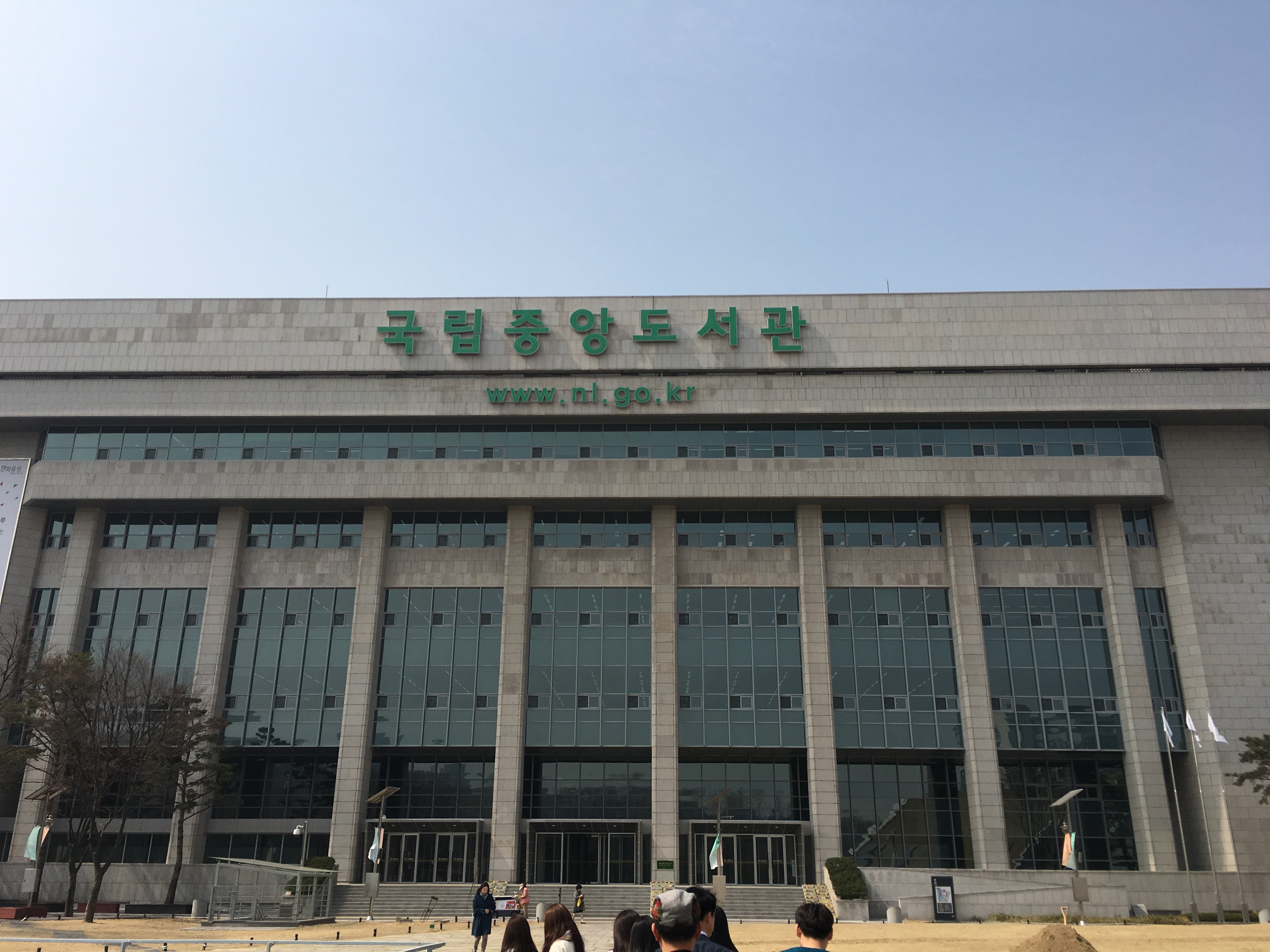 National Library of Korea.